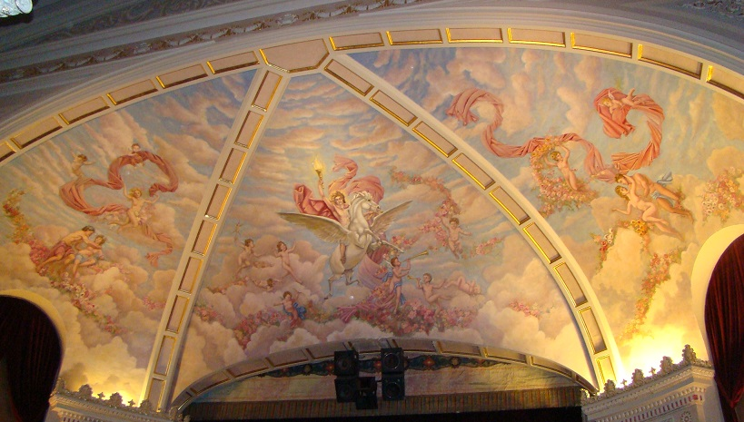 The Proscenium Mural in the auditorium of the Ironwood Theatre in Ironwood, Michigan.